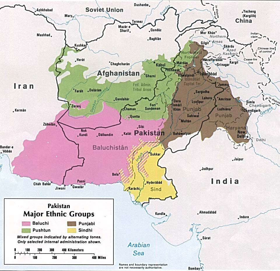 The four major ethnic groups of Pakistan in 1980.